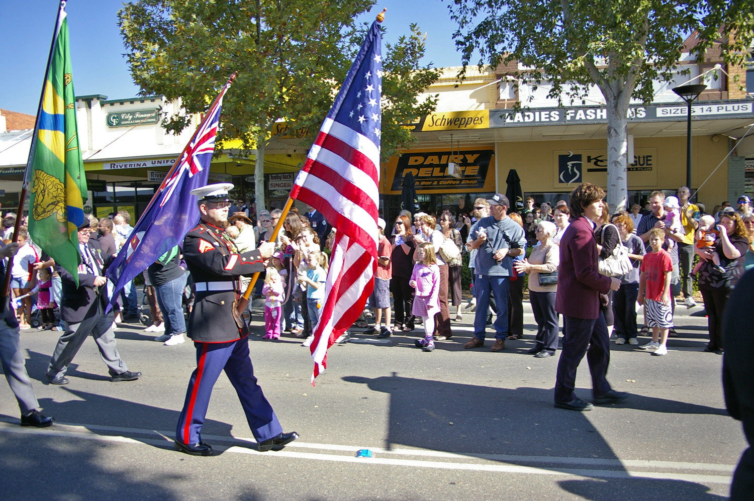 Anzac Day March. Wagga Wagga, New South Wales